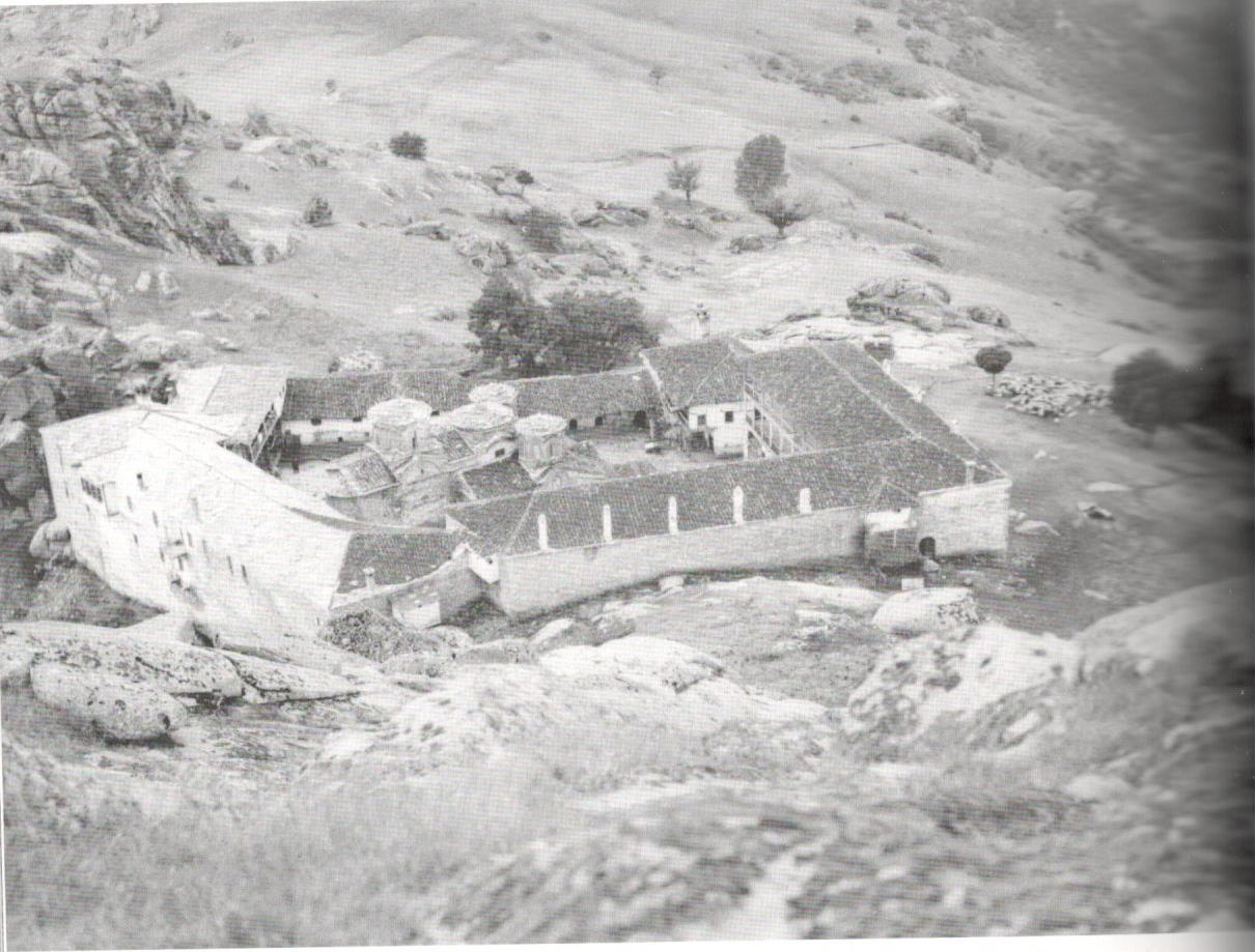 Photo of the Treskavec Monastery near Prilep, Macedonia from 1930